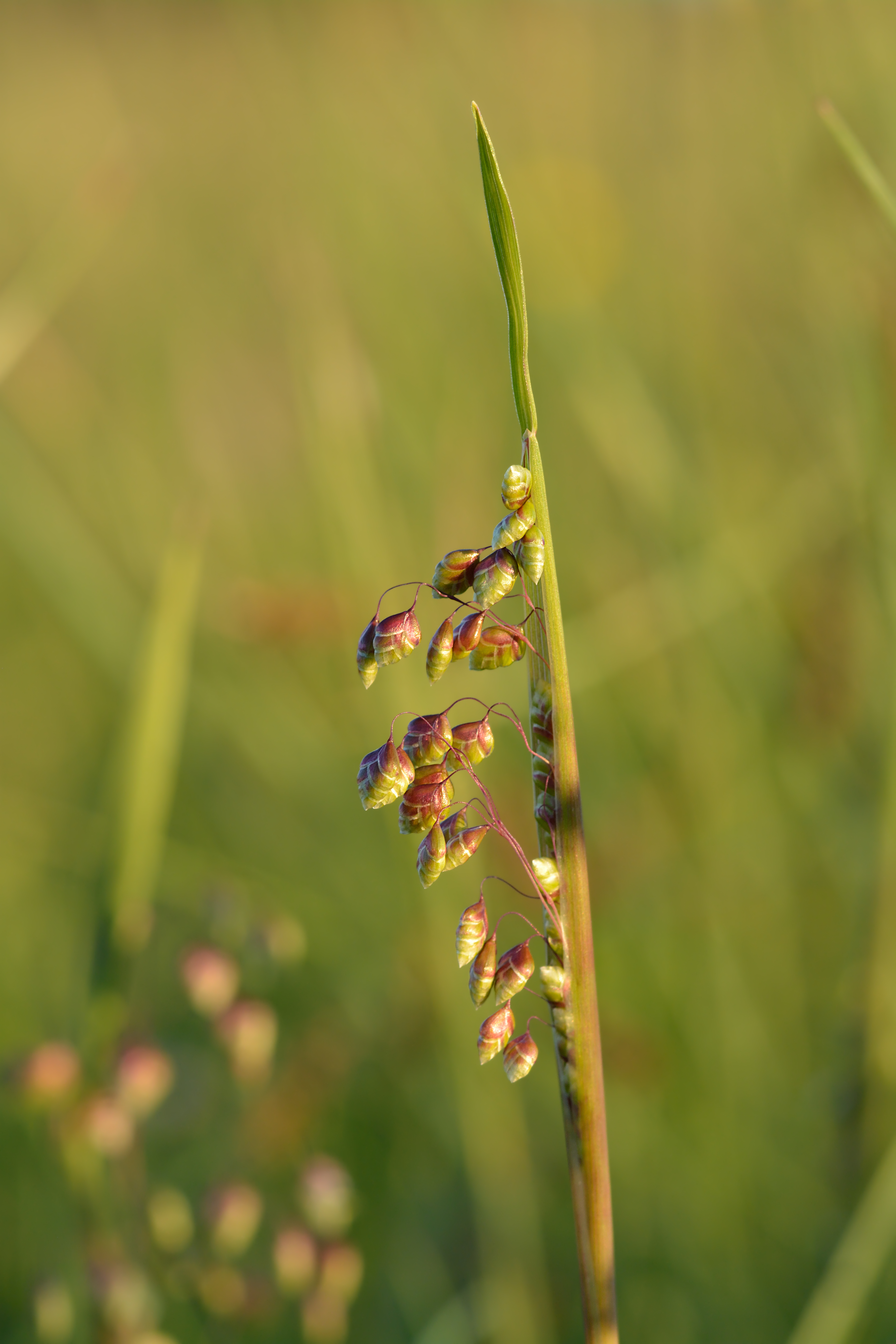 Shaking-grass (Briza media). Alvar (landform) in Keila, Northwestern Estonia.